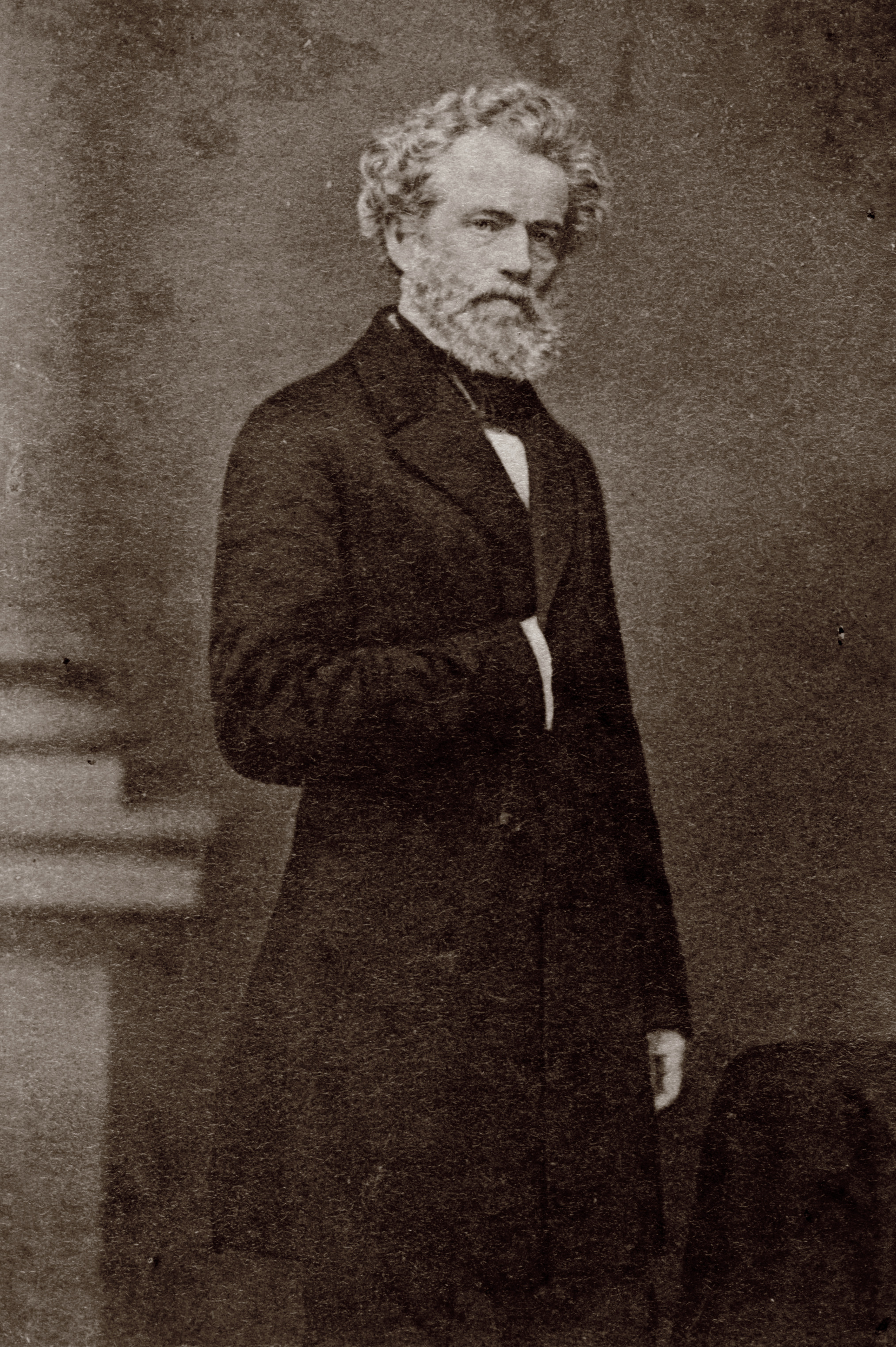 John Anthony Quitman